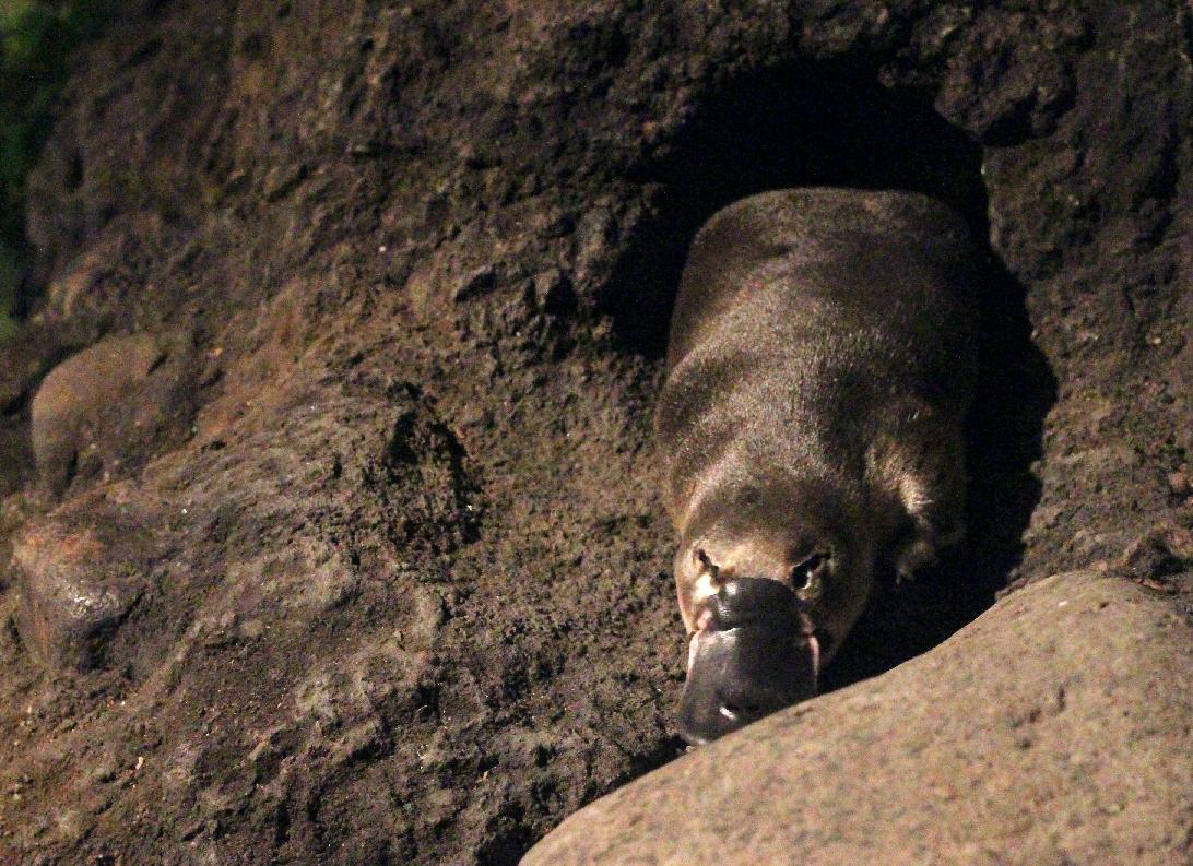 Platypus kept in Lone Pine Koala Sanctuary